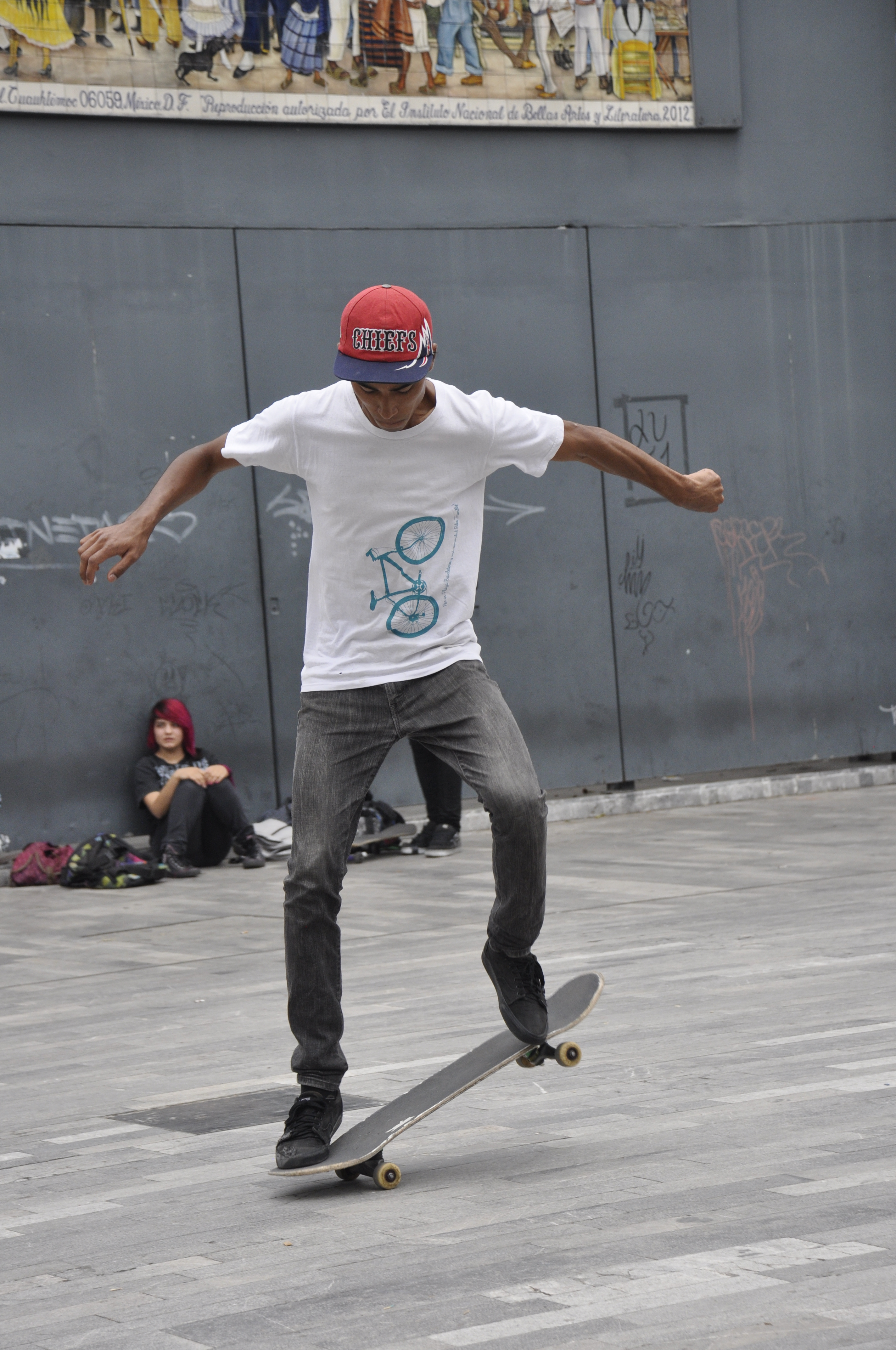 Skateboarding at Calle Dr Mora, just west of Alameda Central in Mexico City.